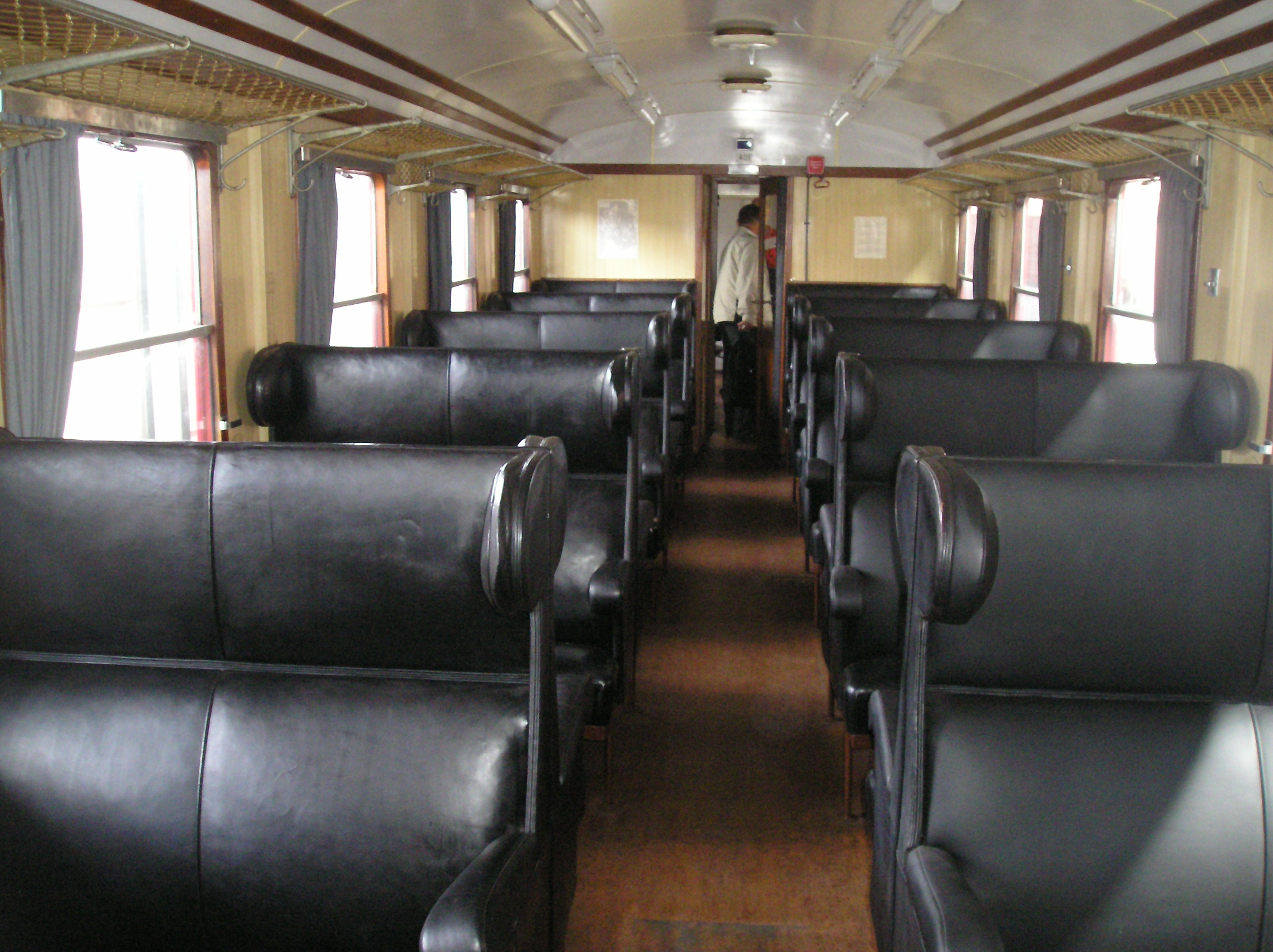 Second class interior of danish multiple unit DSB Litra MS on Danmarks Jernbanemuseum.